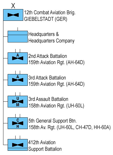 Structure of the US Army 12th Combat Aviation Brigade